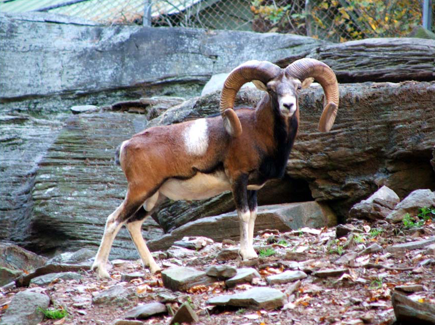 Mouflon ram